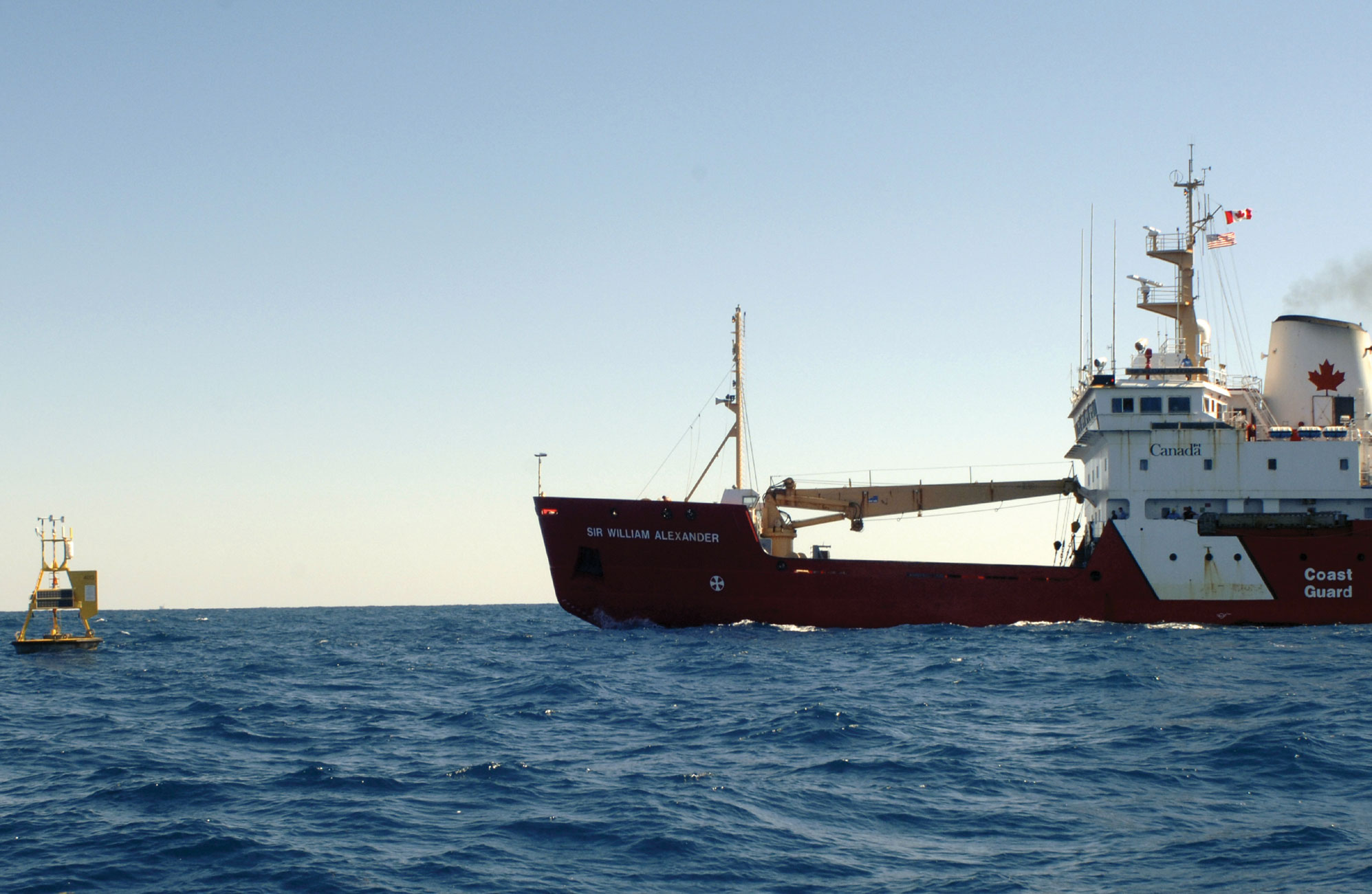 CCG Sir William Alexander, assisting in New Orleans IMO number: 8320482 MMSI Number: 316053000 Callsign: CGUM